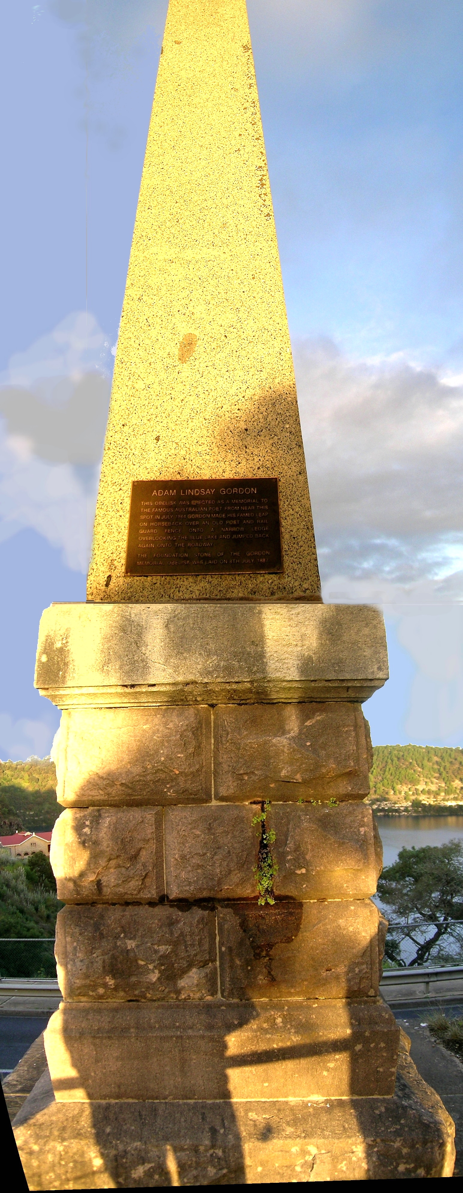 It was near here that Gordon, performed the daring riding feat known as Gordon’s Leap in July 1864 and commemorative obelisk's inscription reads: “This obelisk was erected as a memorial to the famous Australian poet. From near this spot in July, 1865 Gordon made his famed leap on horseback over an old post and rail guard fence onto a narrow ledge overlooking the Blue Lake and jumped back again onto the roadway. The foundation stone of the Gordon Memorial Obelisk was laid on 8th July 1887”.